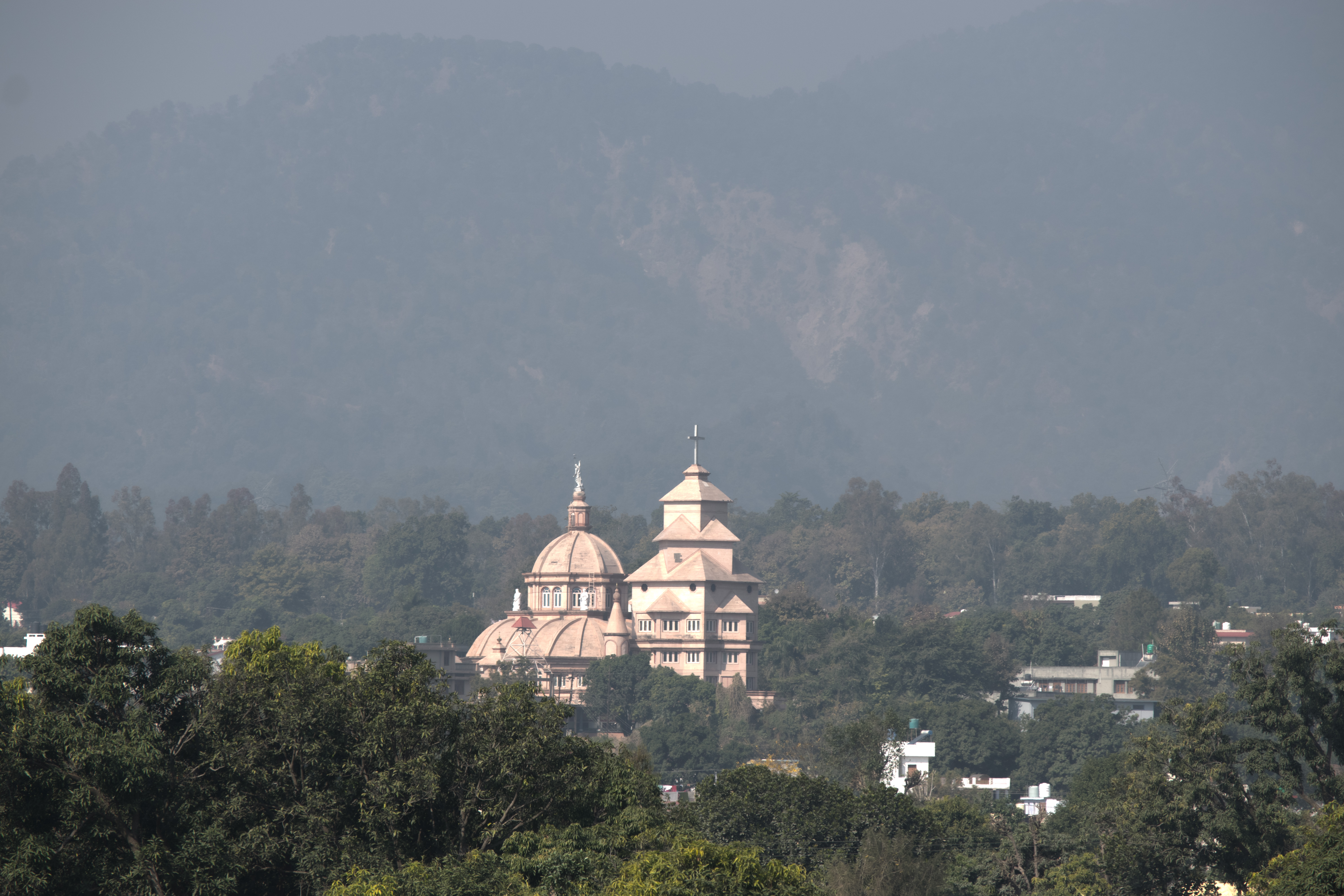 Cathedral